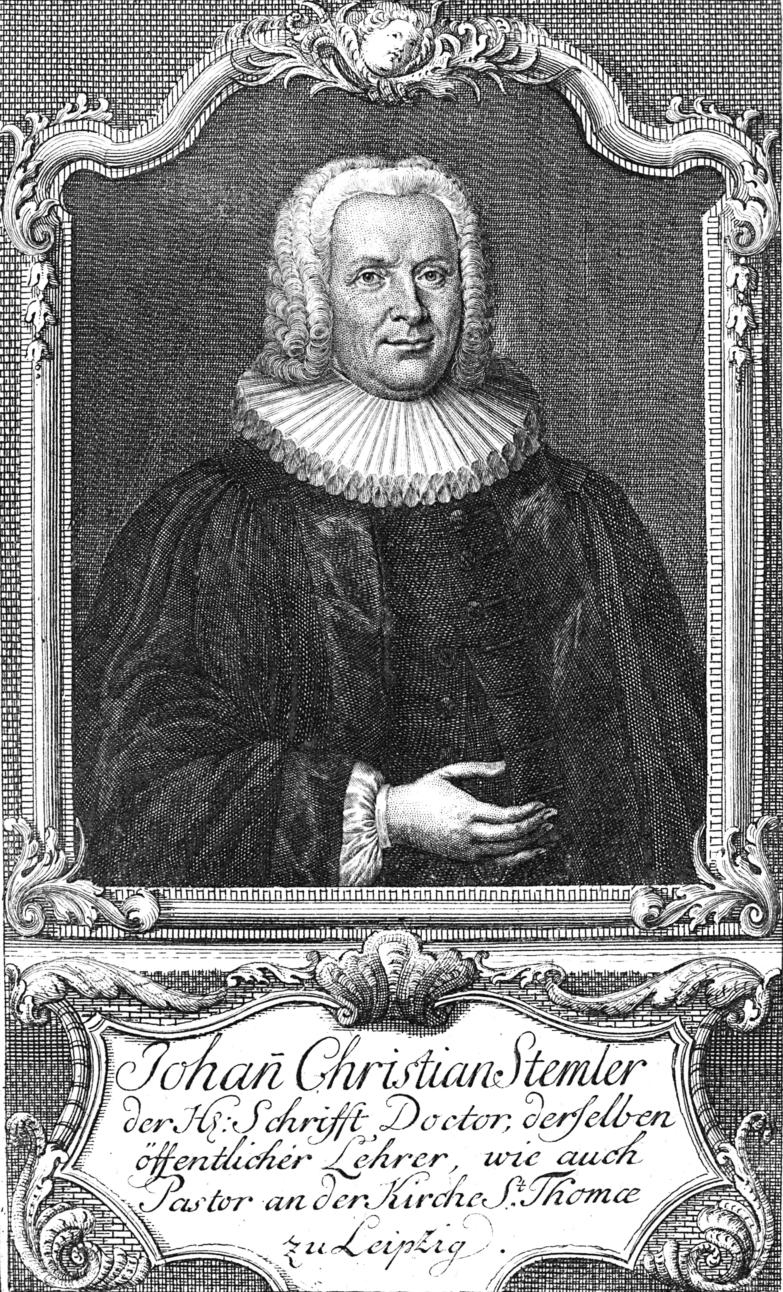 Johann Christian Stemler (1701-1773) german lutheran Thologist